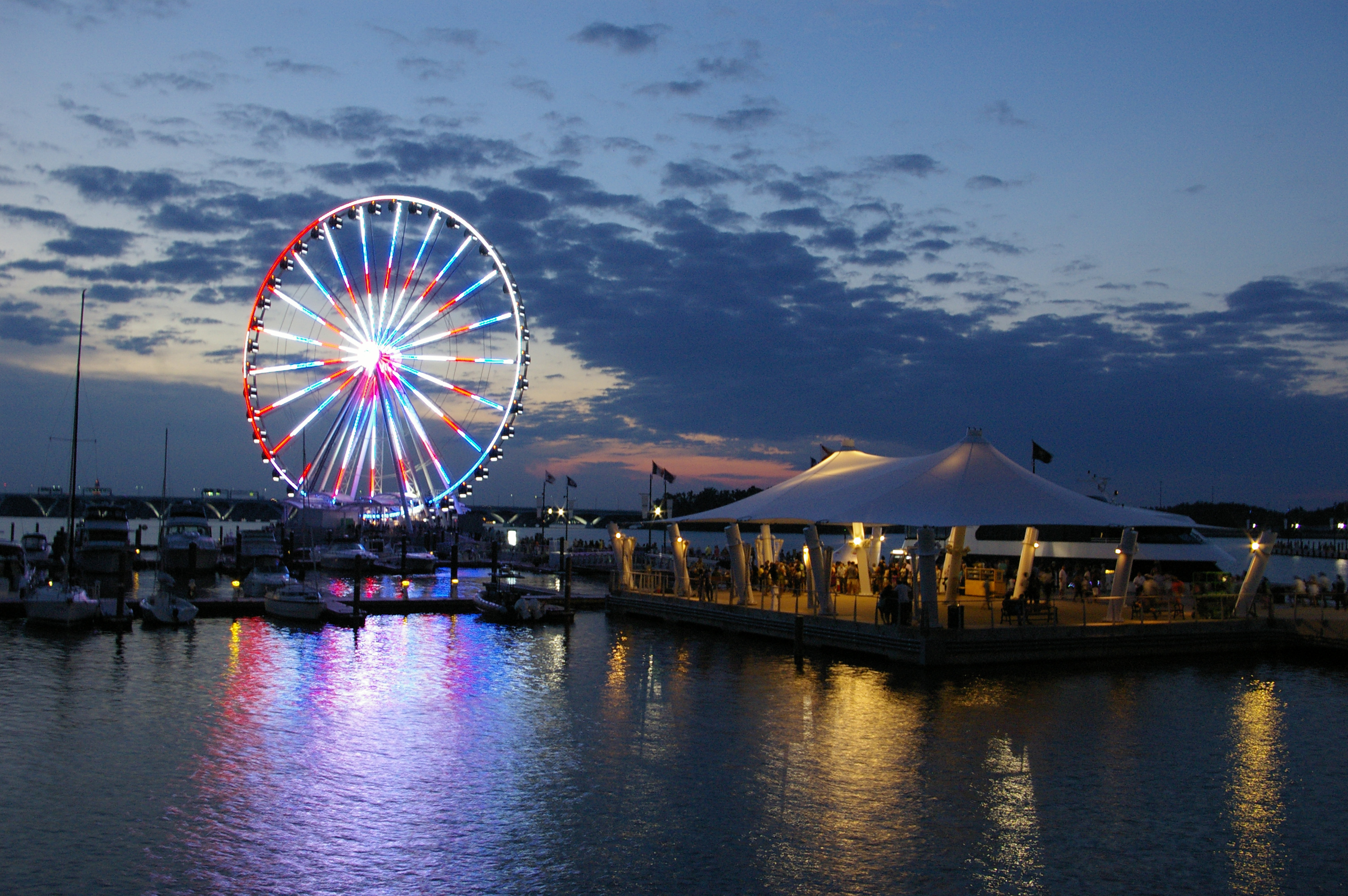 Capital (ferris) Wheel at National Harbor, Maryland, USA